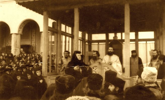 Mother Veronica at Vladimiresti Monastery